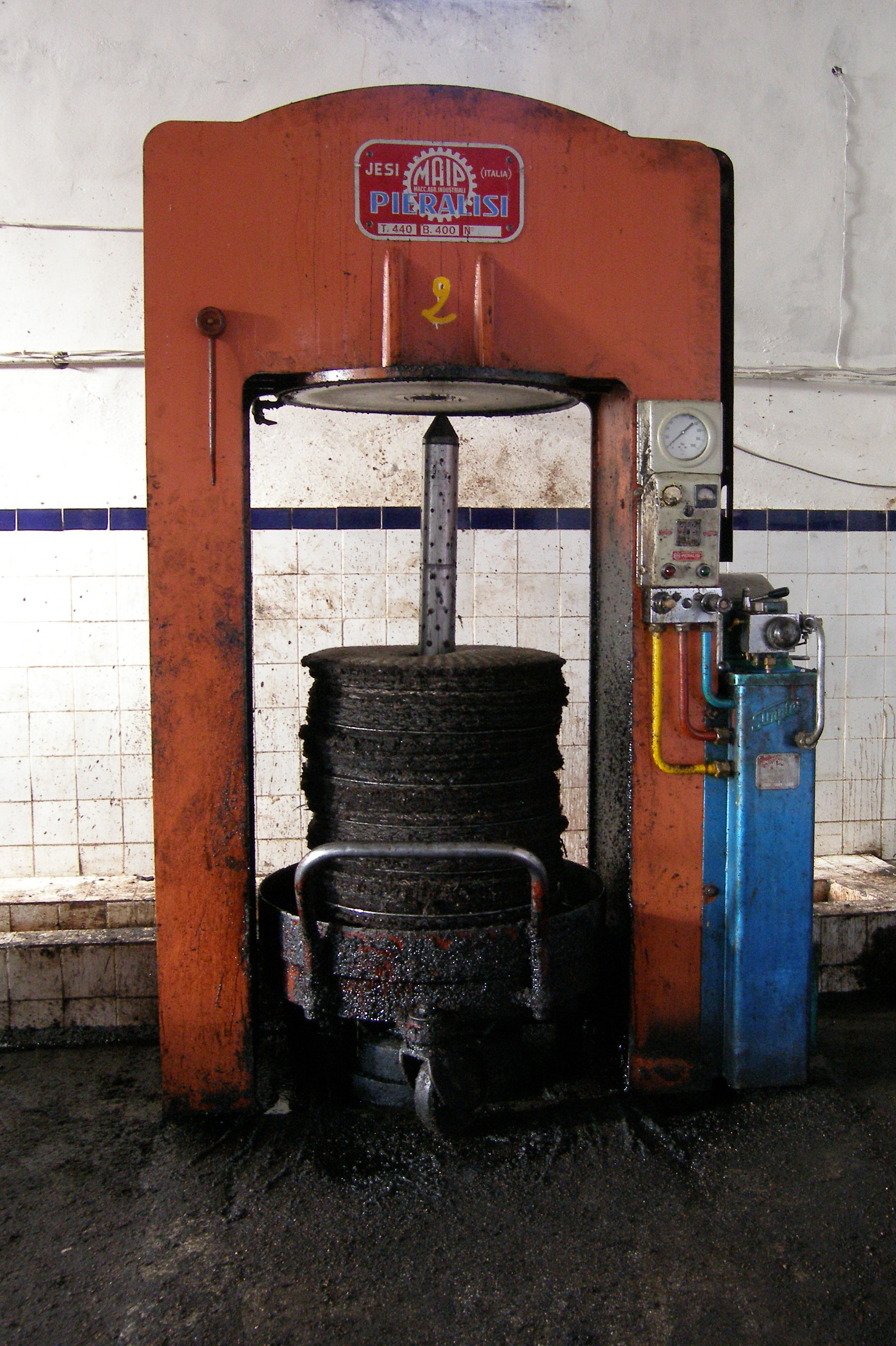 Olive press in an olive oil factory near Marrakech.